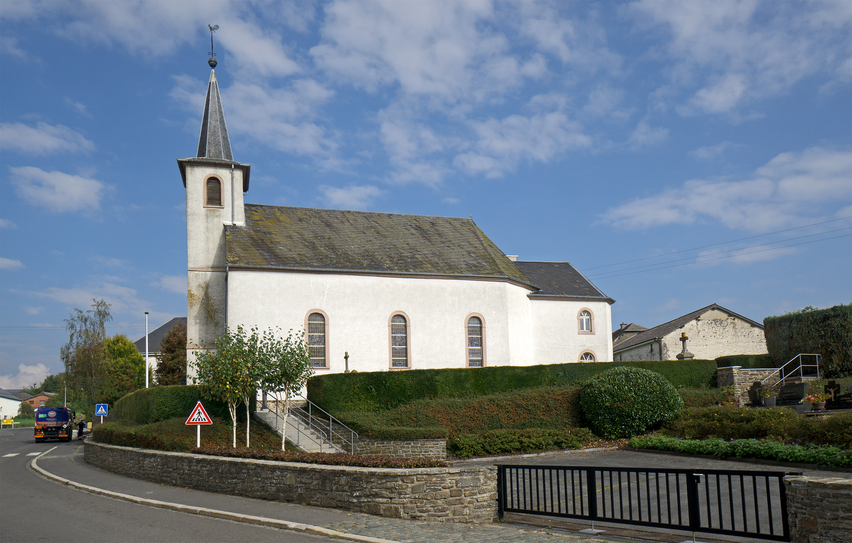 Church of Beiler